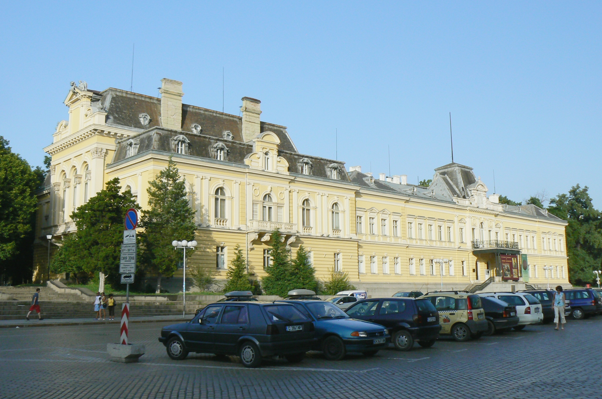 National art gallery, hosted in the ex royal palace, Sofia, Bulgaria